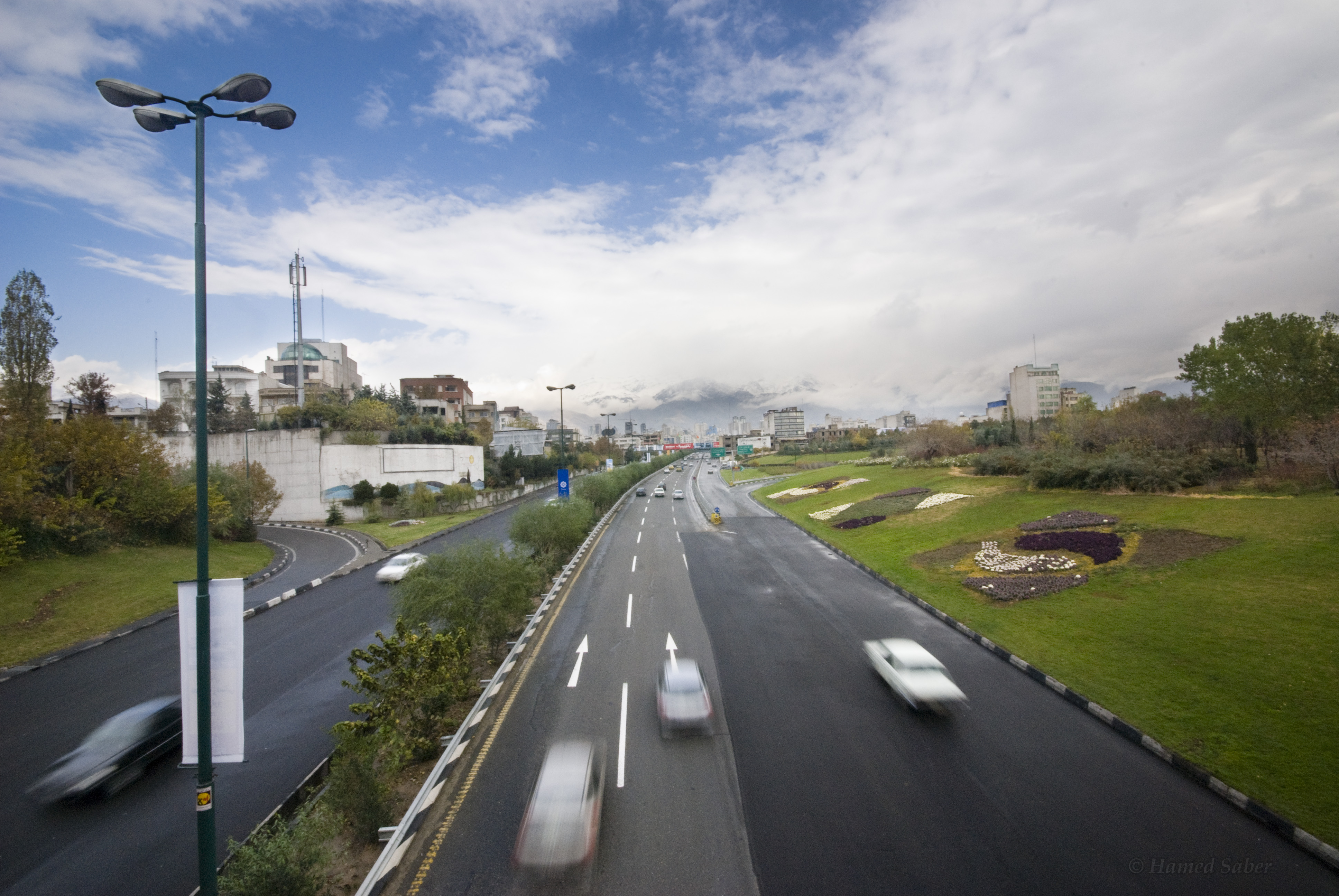 Minutes after a heavenly rain -- Added to Flickr Explore (interestingness) archive of 2 December 2007.